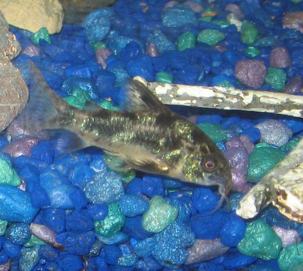 Corydoras paleatus in an aquarium